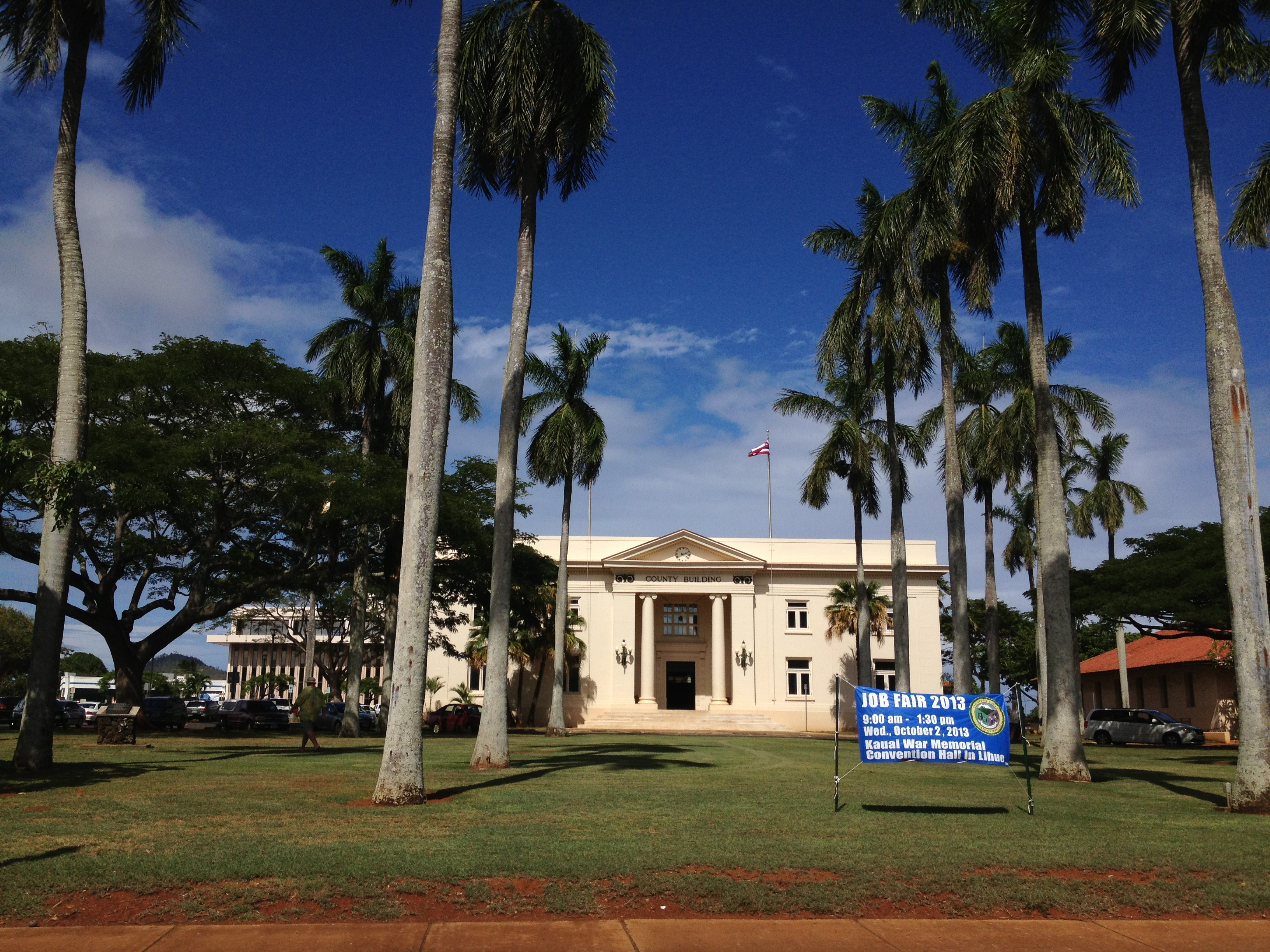 Lihue Civic Center Historic District, Off Hawaii Route 50 Lihue